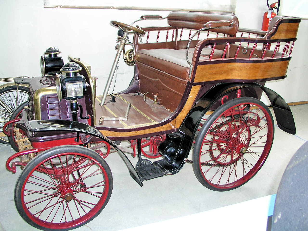 4.5 HP car with 2-cylinder aircooled engine designed by J. de Cosmo, made in Belgium by Fabrique Nationale d'Armes de Guerre; side view